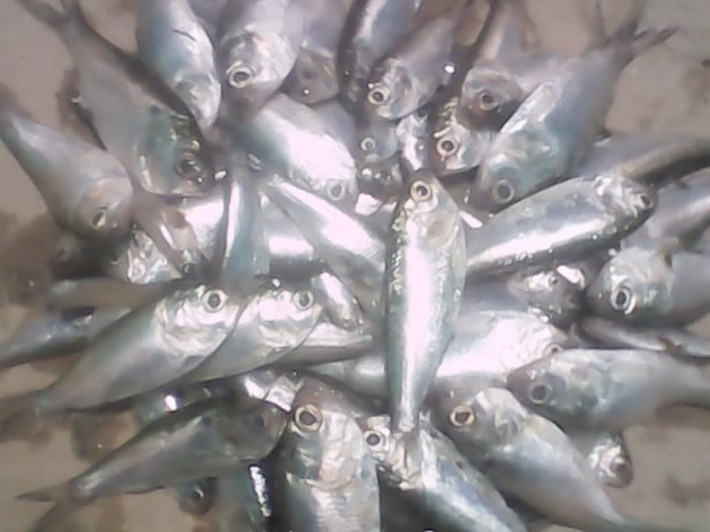 Chapila fish (Gonialosa manmina) in Dhaka's market